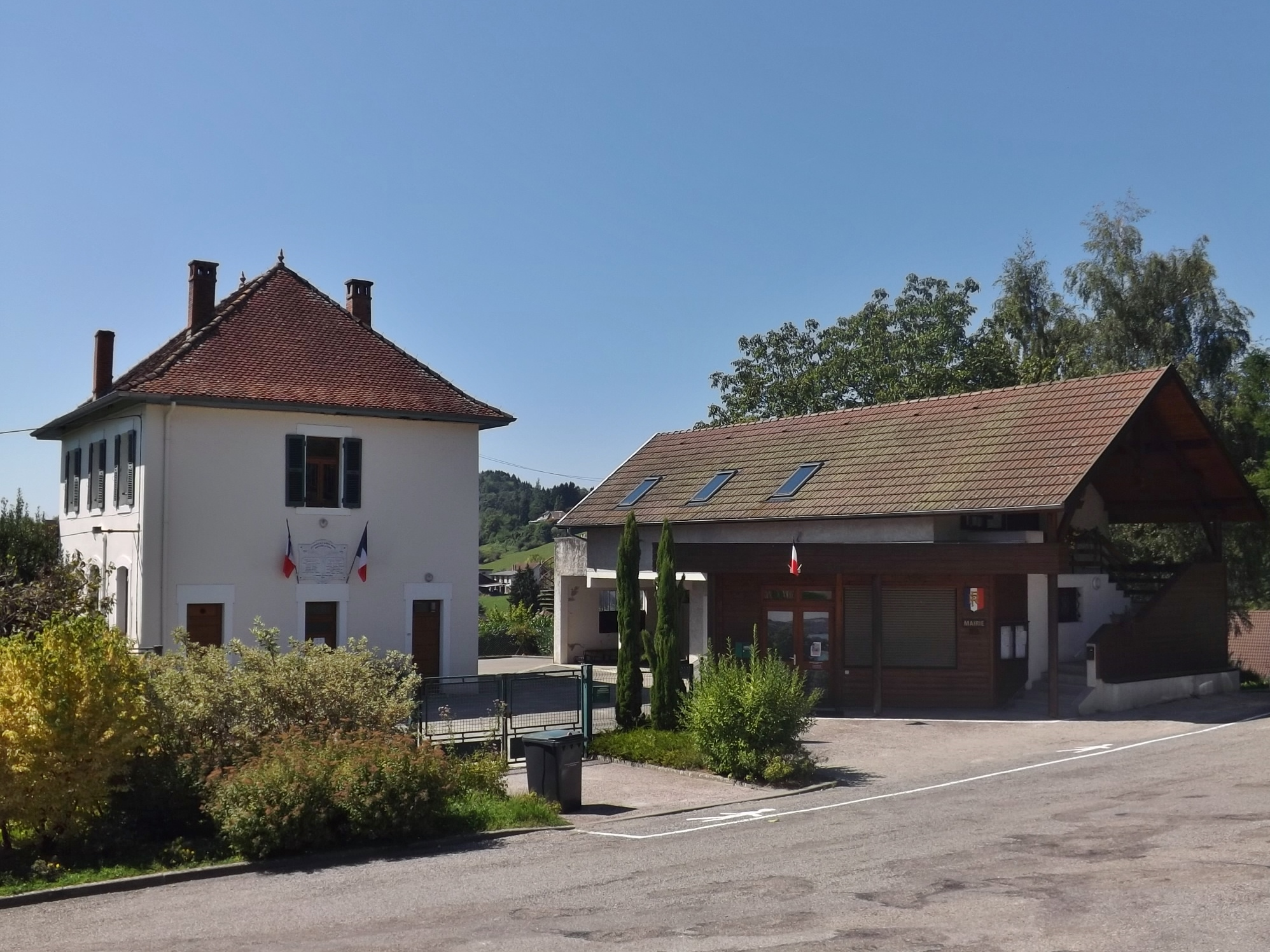 Sight of the town hall building of the French commune of Saint-Alban-de-Montbel, in Savoie, France.